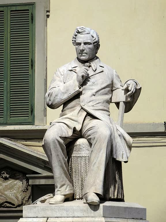 Statue of Francesco Domenico Guerrazzi, by the sculptor Lorenzo Gori, piazza Guerrazzi, Livorno